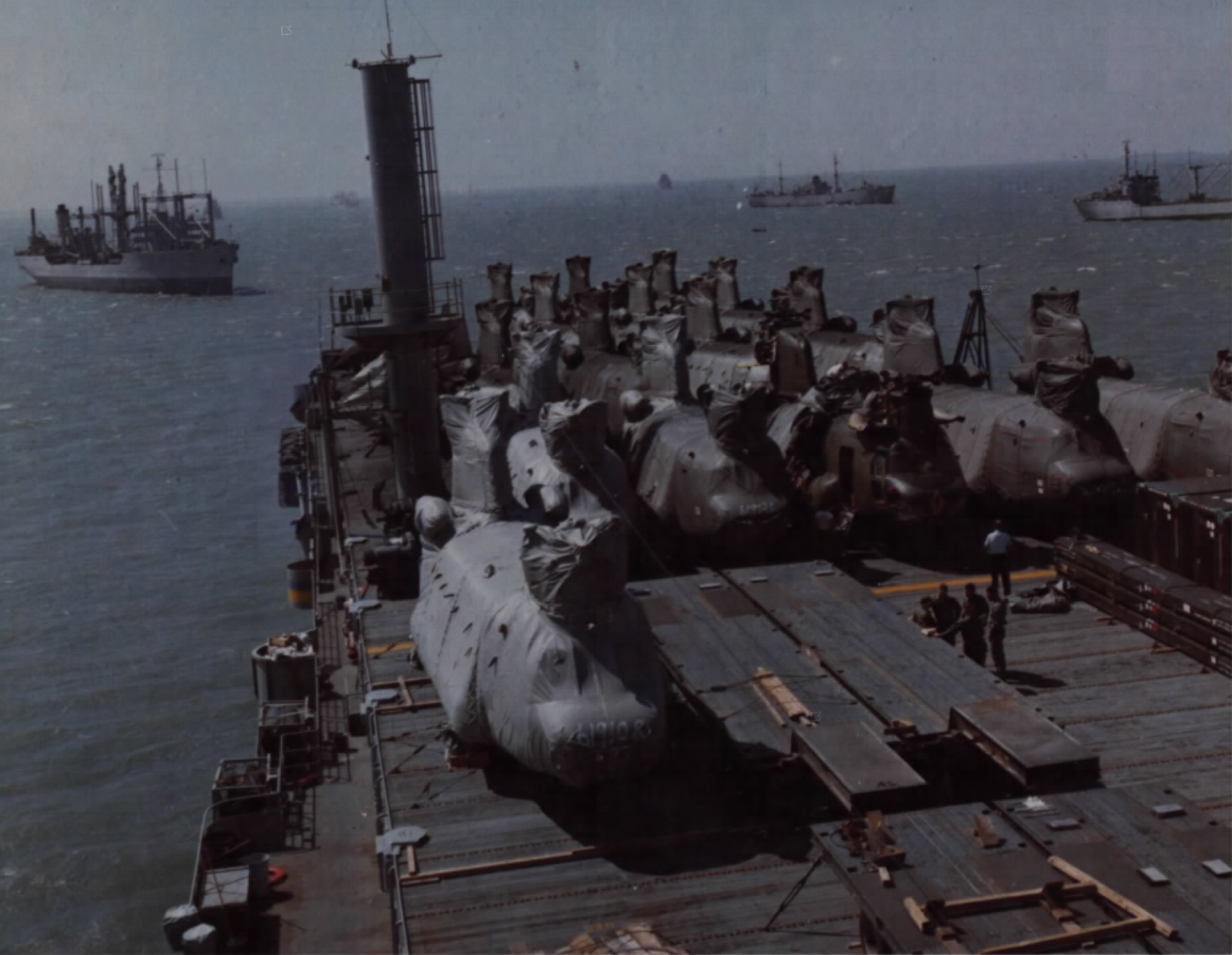 Men of the 271st Aviation Company, 13th Battalion, 164th Group, 1st Aviation Brigade, remove the protective cocoon from the first of the 16 CH 47B Chinook helicopters sitting on the deck of the USS Point Cruz.